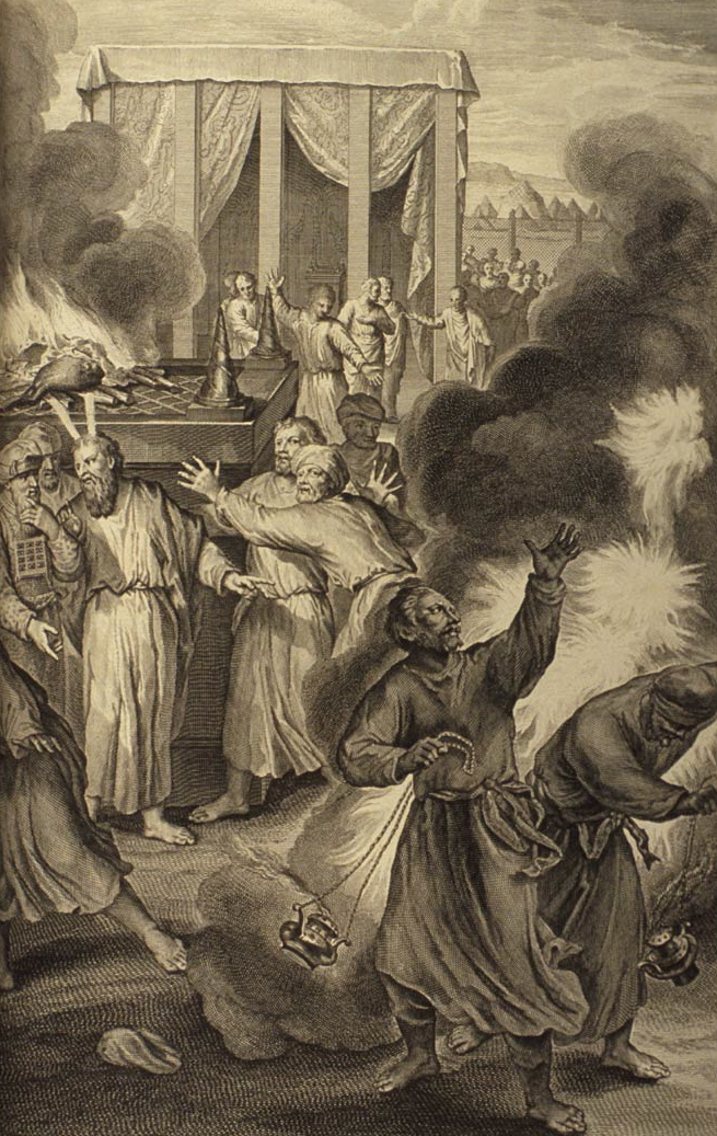 Nadab and Abihu consumed by fire from the Lord; illustration from "Figures de la Bible", published by P. de Hondt in The Hague in 1728